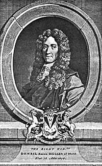 Denzil Holles, 1st Baron Holles of Ifield